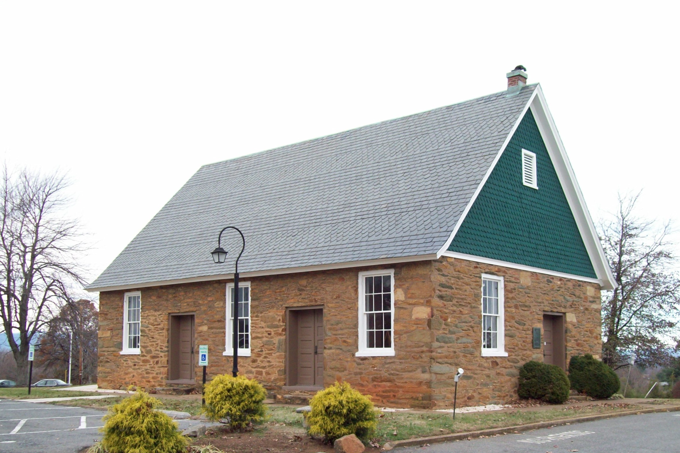 South River Friends Meetinghouse, Lynchburg VA, November 2008